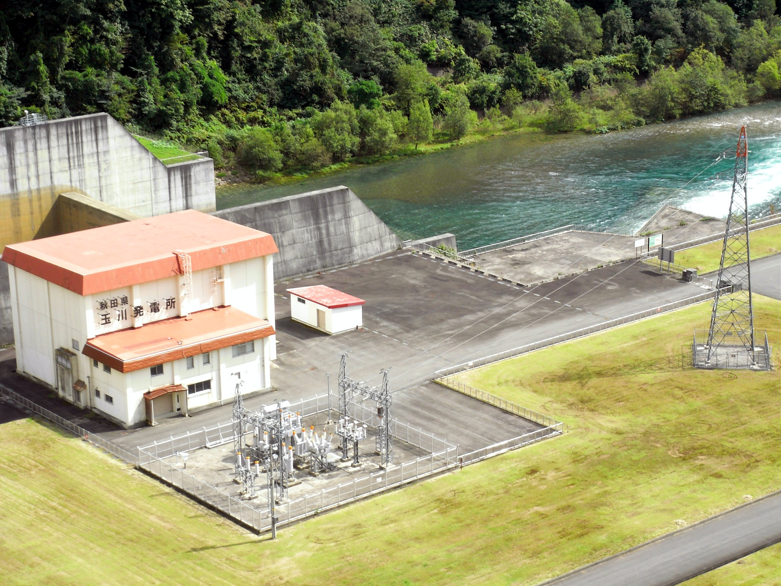 Tamagawa power station(Tamagawa river/Akita Pref./Japan)